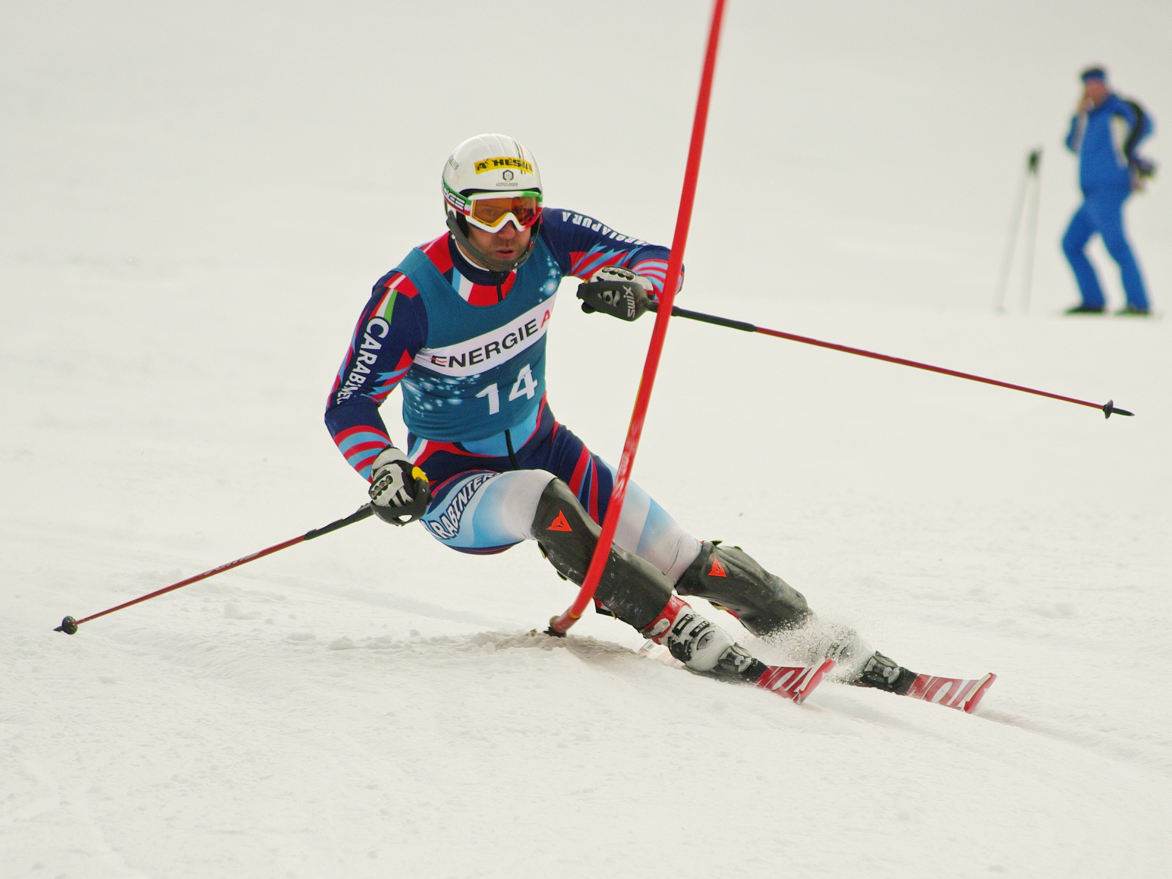 Italian alpine skier Wolfgang Hell in the second run of the FIS-Slalom in Hinterstoder, Austria, on 10 March 2010.